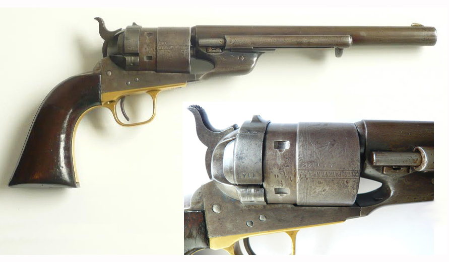 Colt 1860 Richards Conversion